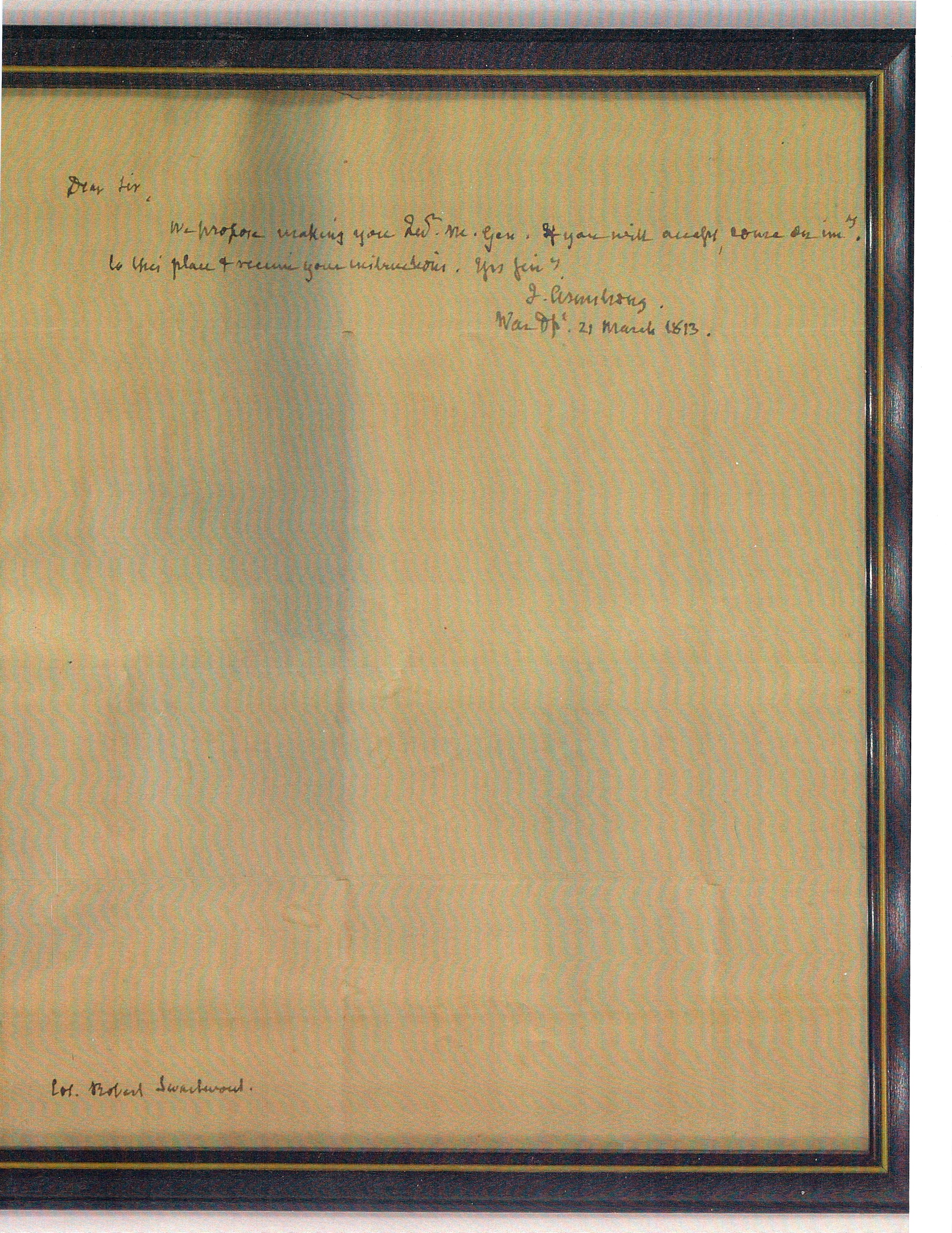 photo of letter from Secretary of War John Armstrong to Robert Swartwout